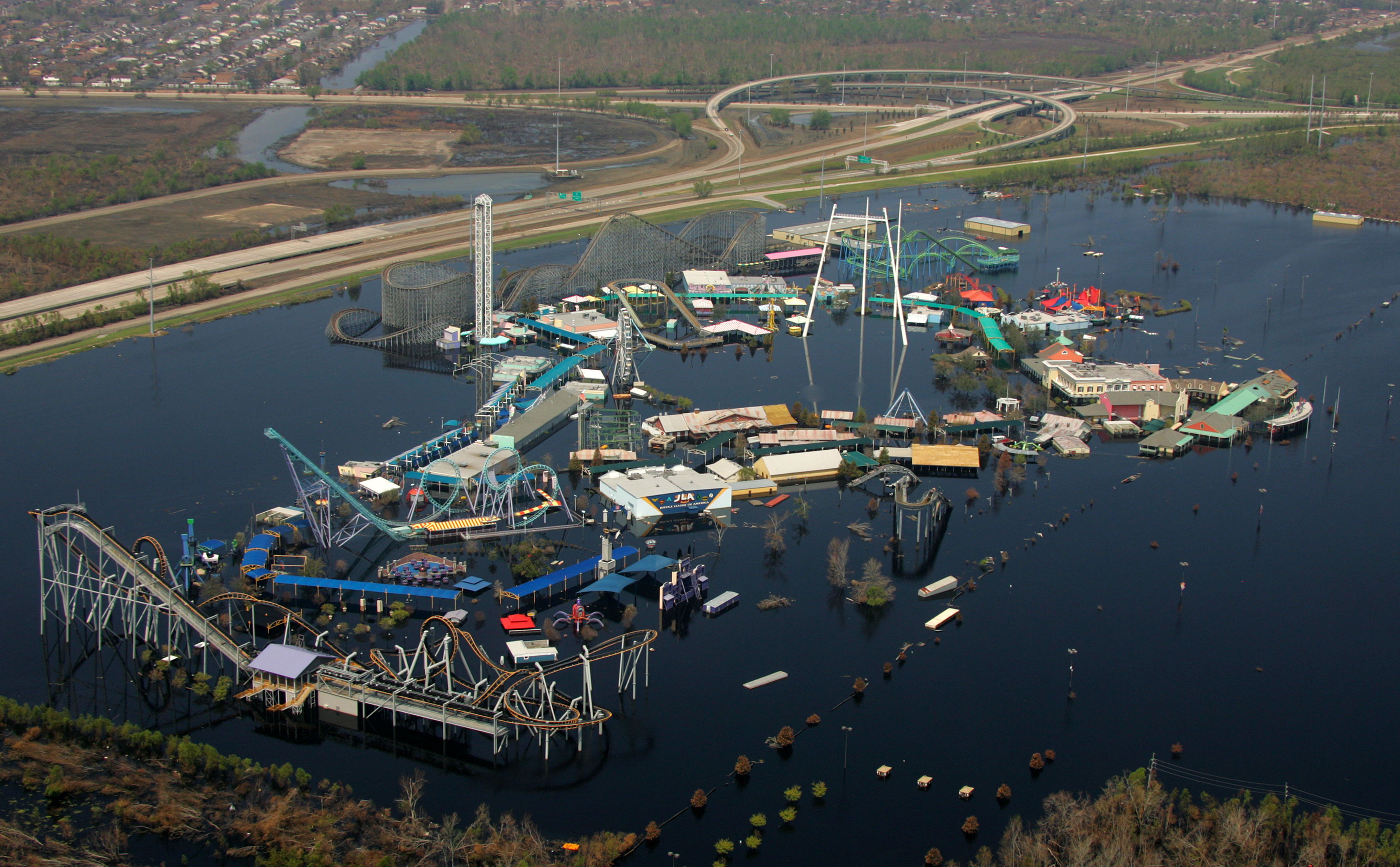 New Orleans, LA, Sept. 14, 2005 -- Six Flags Over Louisiana remains submerged two weeks after Hurricane Katrina caused levees to fail in New Orleans. Bob McMillan/FEMA Photo. Edited from File:Aerial view of SFNO after Hurricane Katrina.jpg by uploader to straighten image (by necessity including a crop), with some levels adjustments